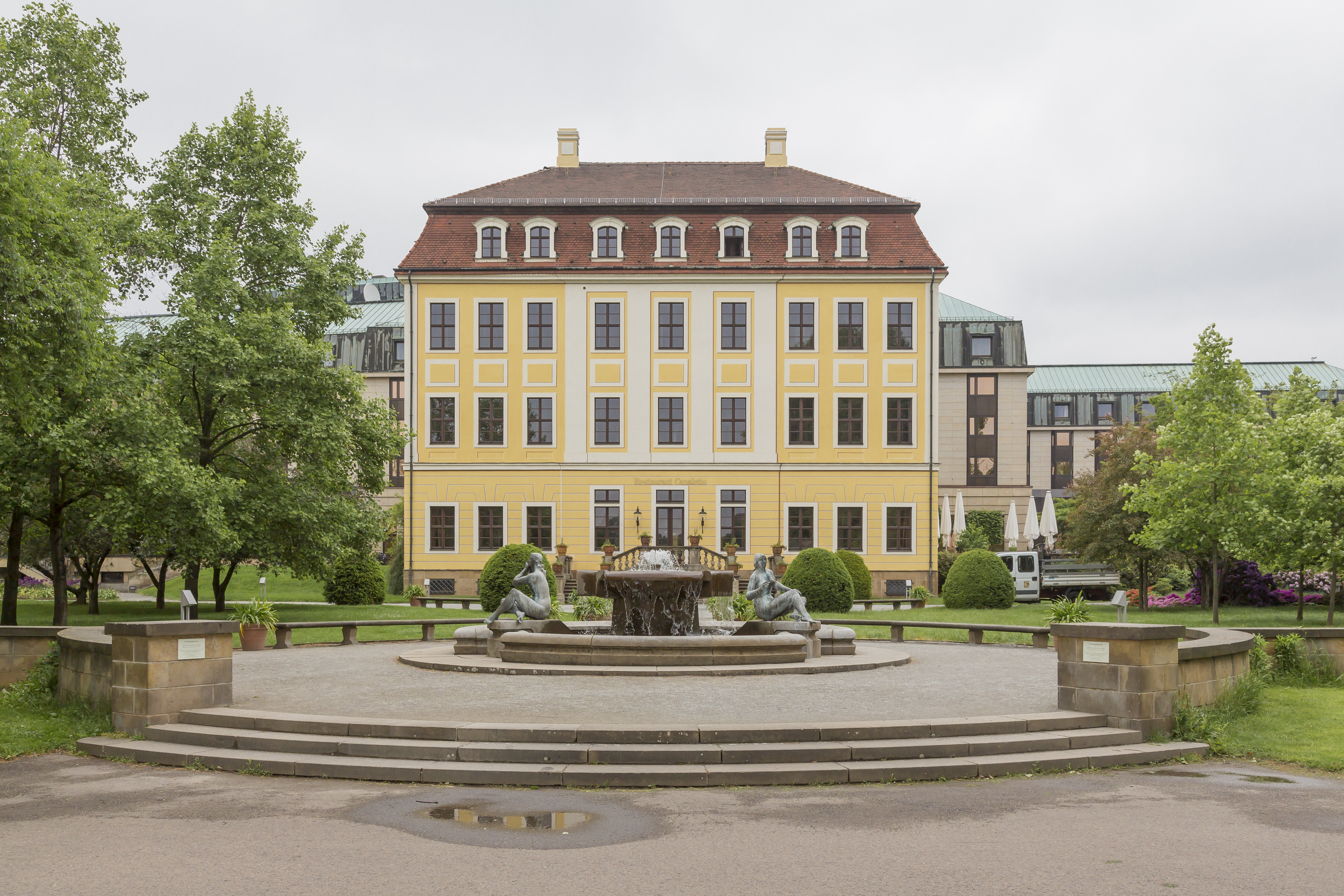 Dresden, Germany: Former Royal Chancellory, today part of Westin Hotel Bellevue